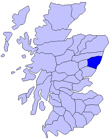 Map showing roughly the historic district of The Mearns in Scotland.